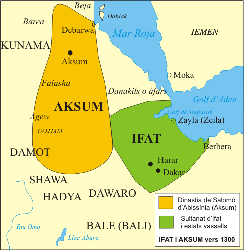 Ifat Sultanate and Aksum circa 1300